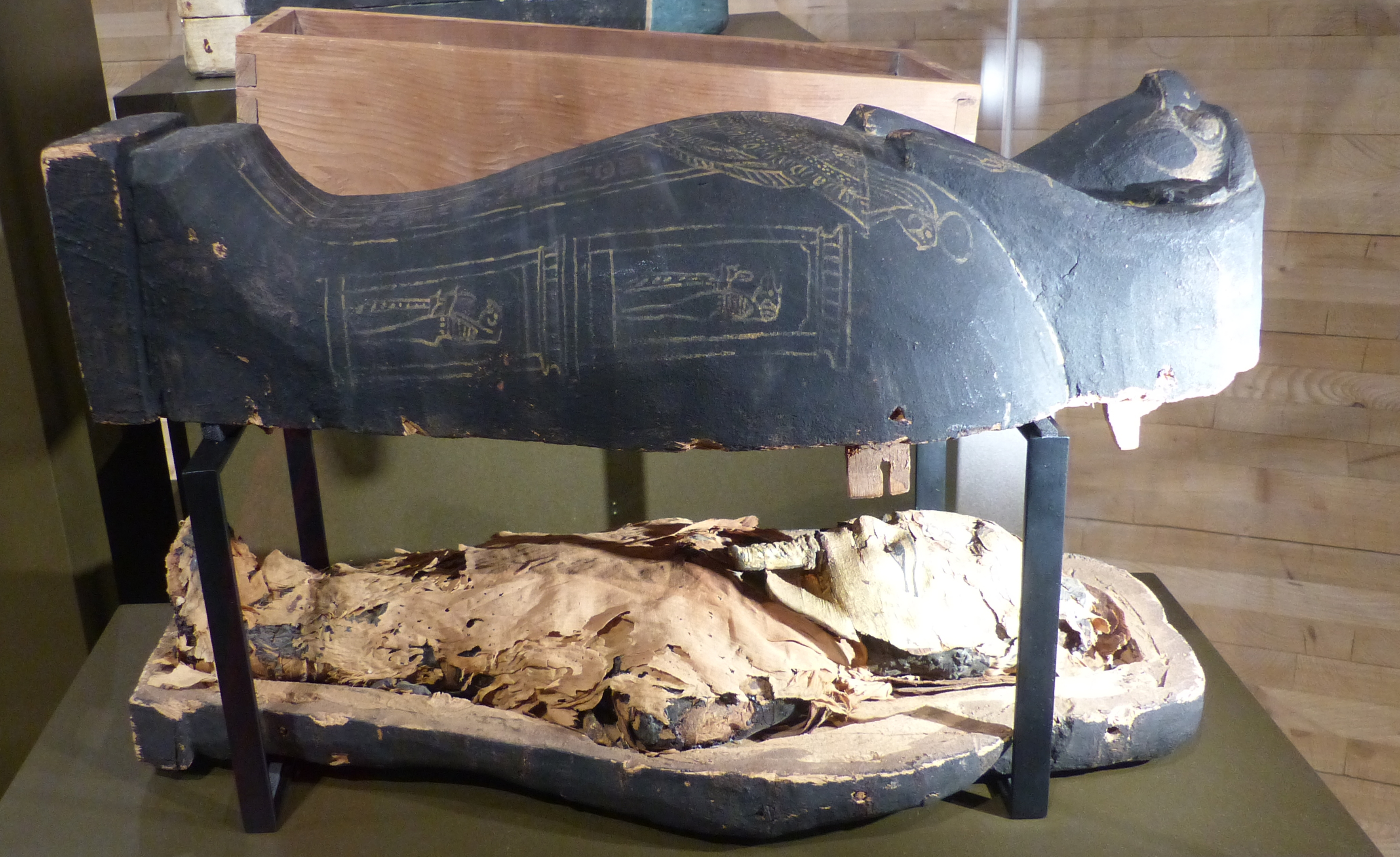 Asten ( Upper Austria ). Paneum ( Bread museum ) - Grain mummy ( 600 - 400 BC. ) from Egypt.